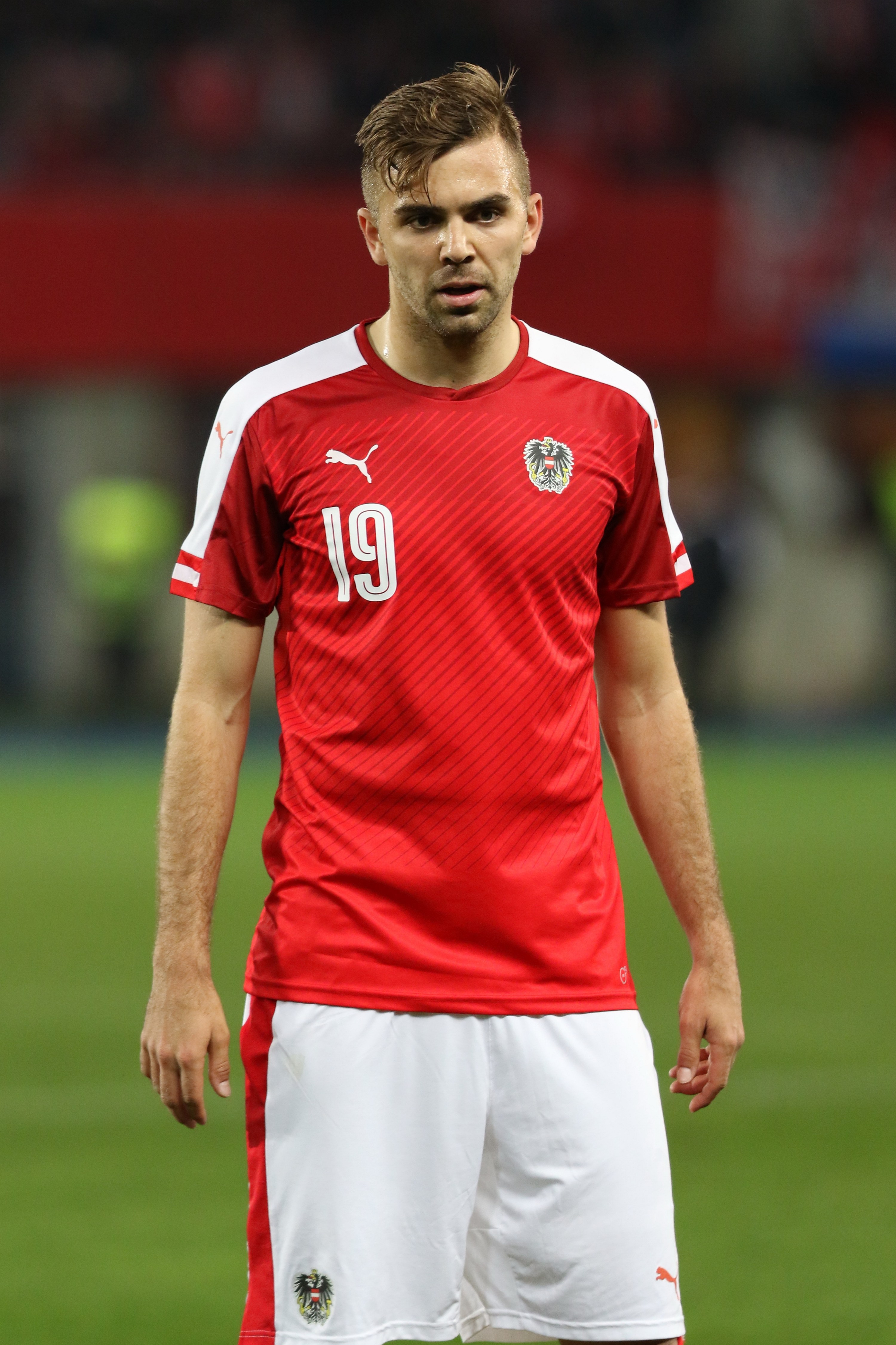 Friendly match – Austria (red shirts) vs. Turkey (blue shirts) 1–2 (1–1) on 2016-03-29 in Ernst-Happel-Stadion, Vienna – The photo shows Lukas Hinterseer (FC Ingolstadt 04).